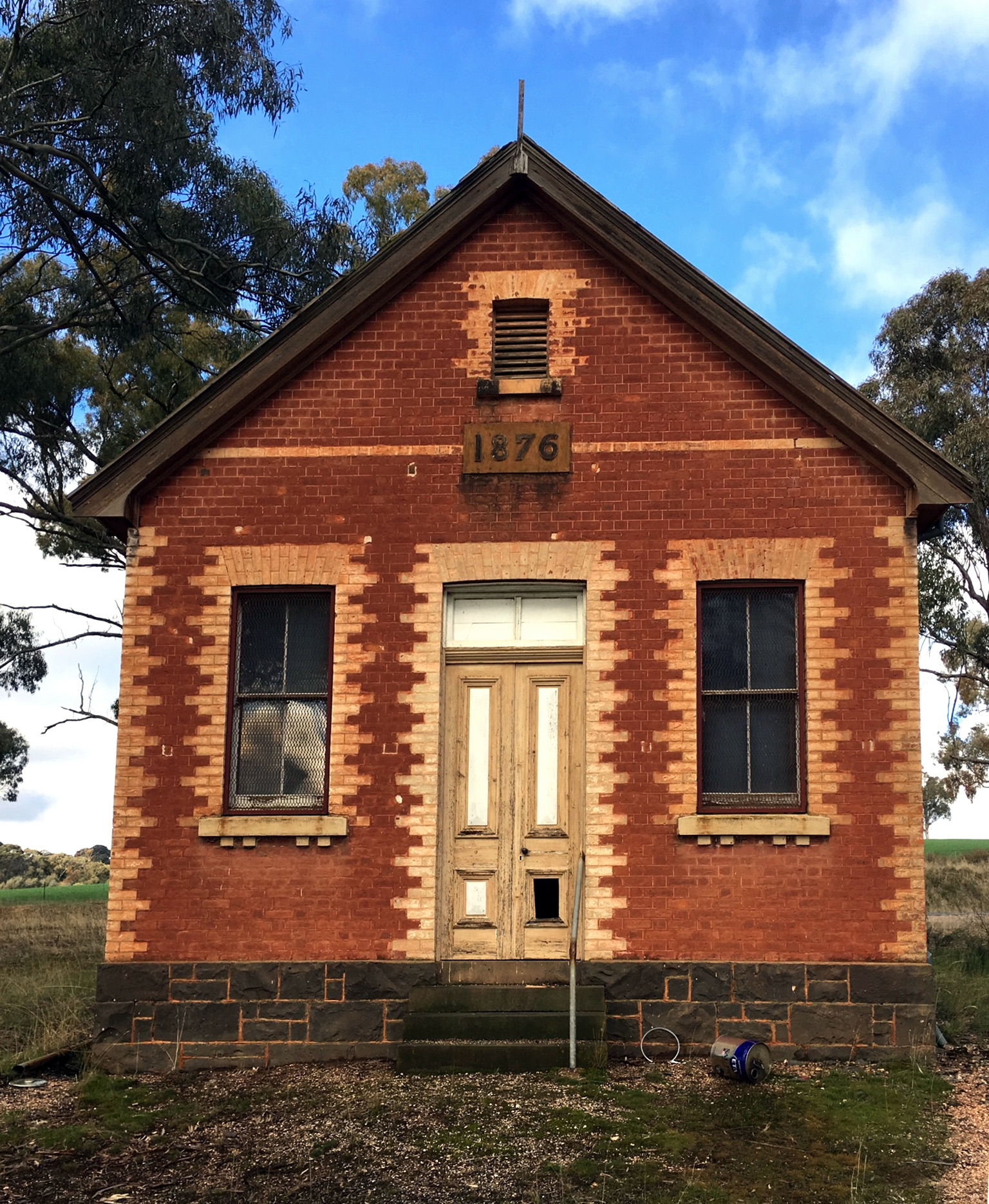 Bong Bong Victoria Public Hall 1876